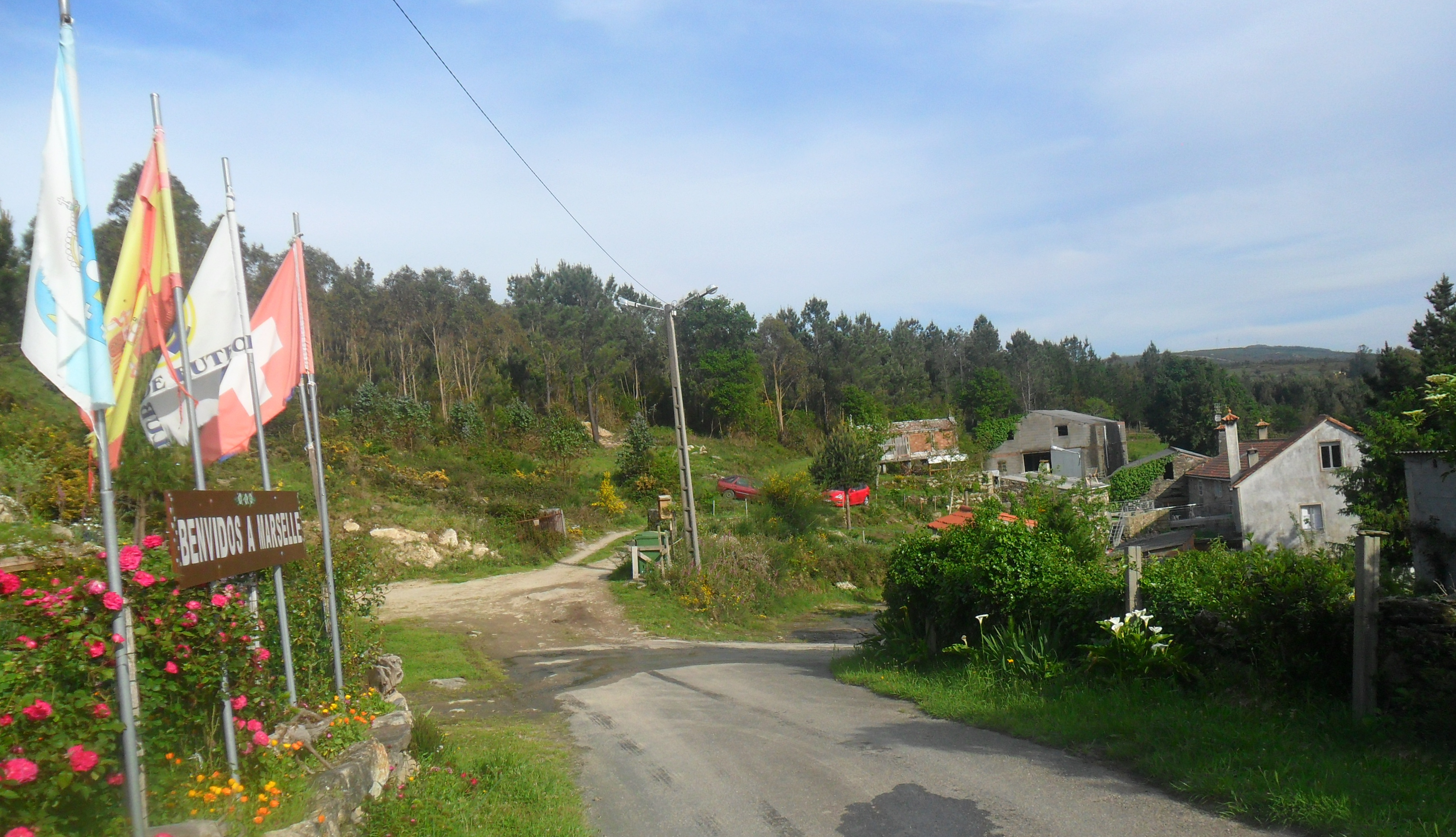 Aldea de Lousame